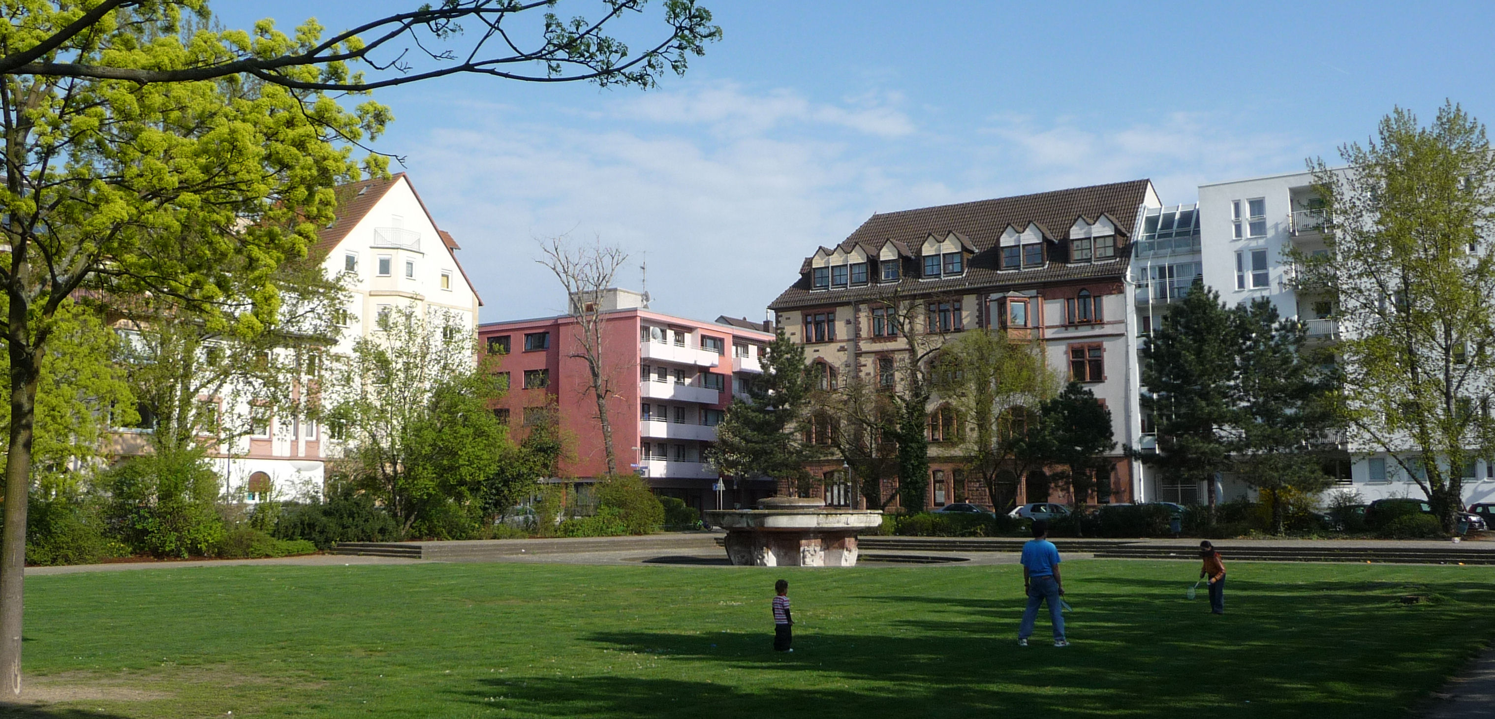 square in Ludwigshafen, Germany